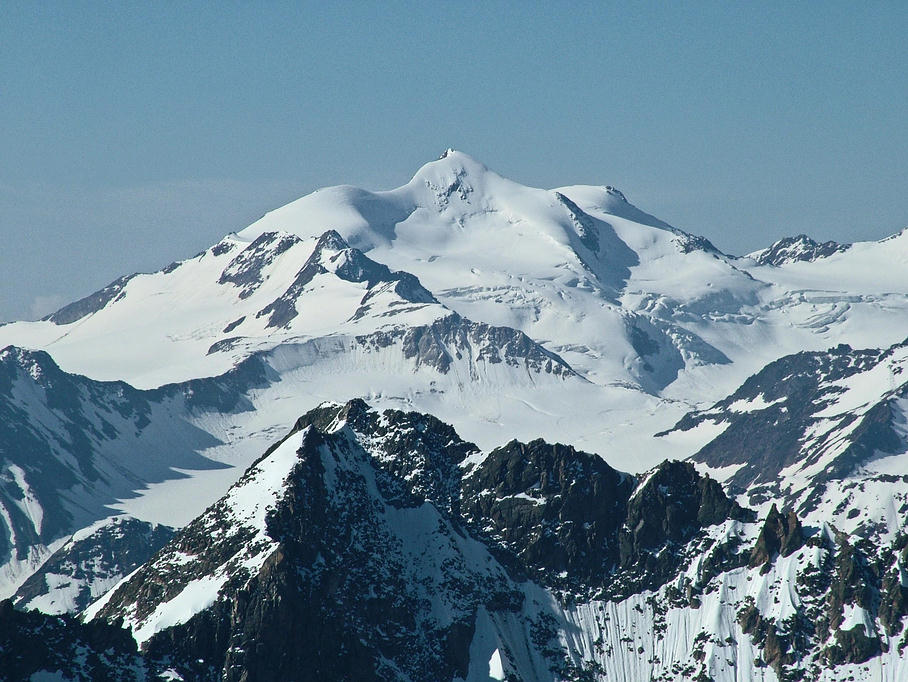 Wildspitze from Northeast